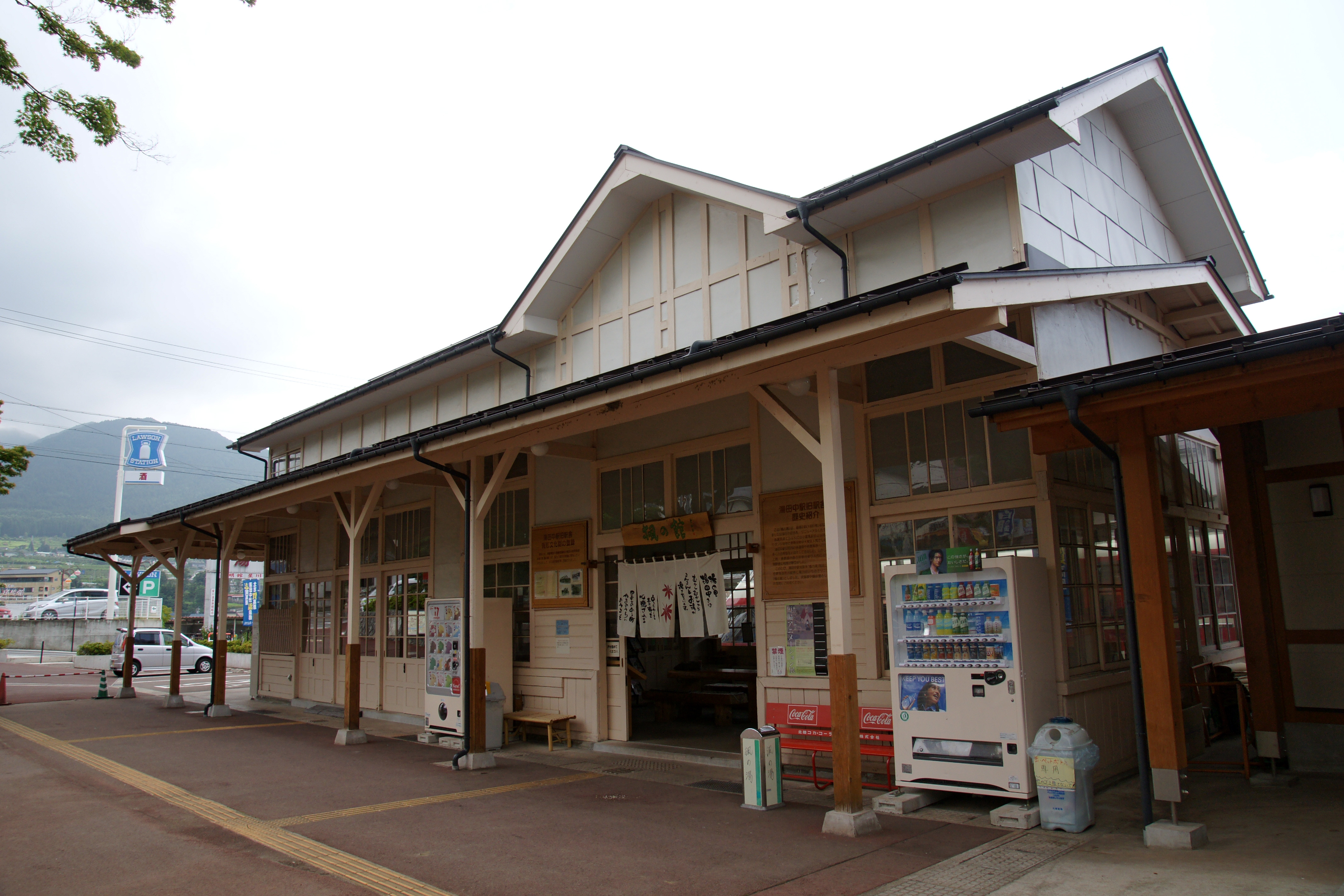 Yudanaka Station ,Yamanouchi, Nagano prefecture, Japan